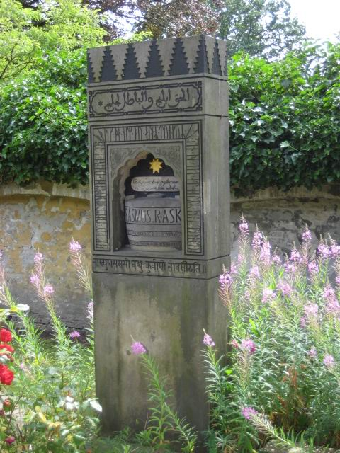 The tomb of Rasmus Rask at Assistens Kirkegård, Copenhagen